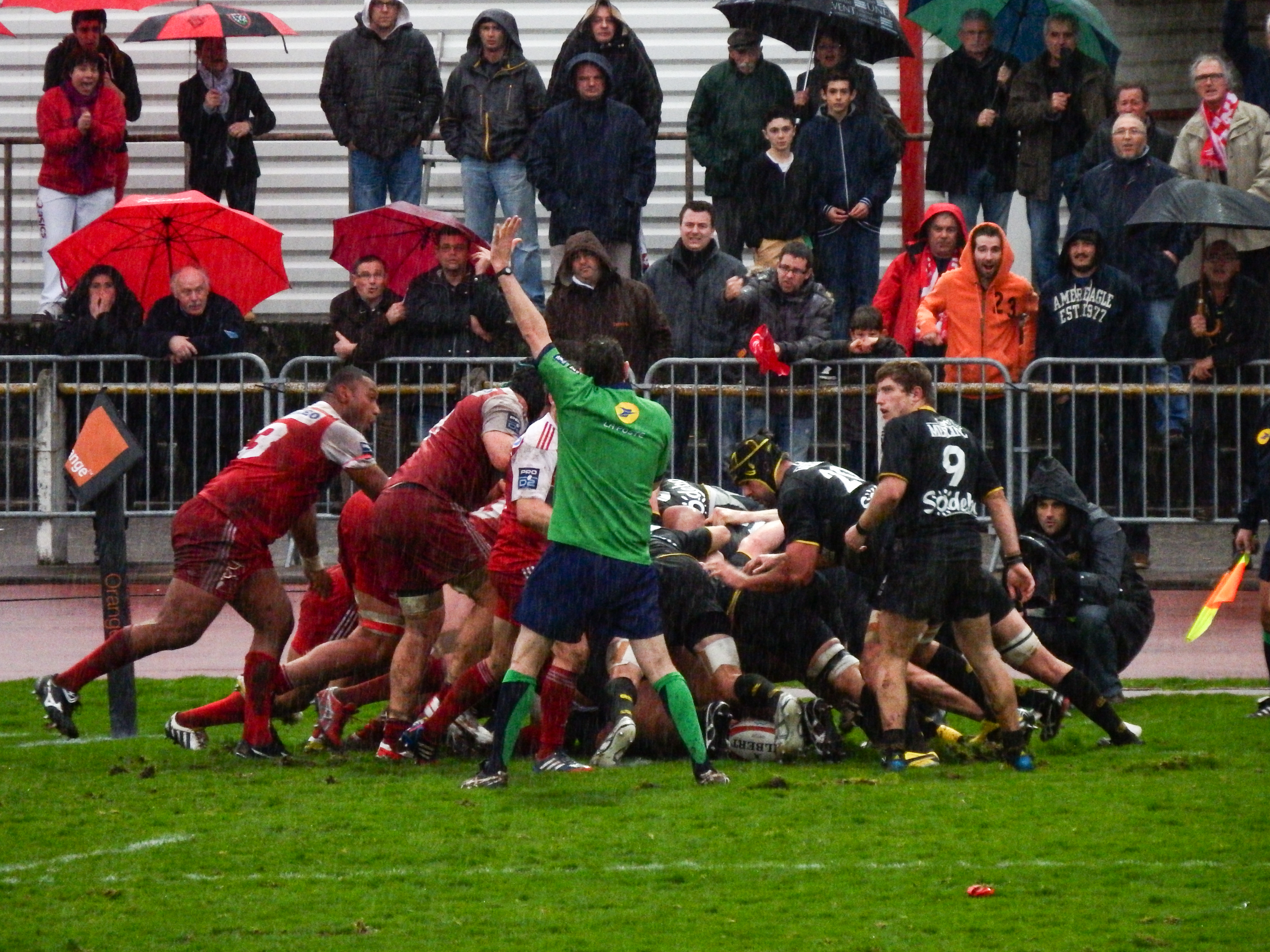 2013–14 Rugby Pro D2 season — 26 January 2014, Stade Maurice Boyau. Match between: US Dax — Atlantique stade rochelais